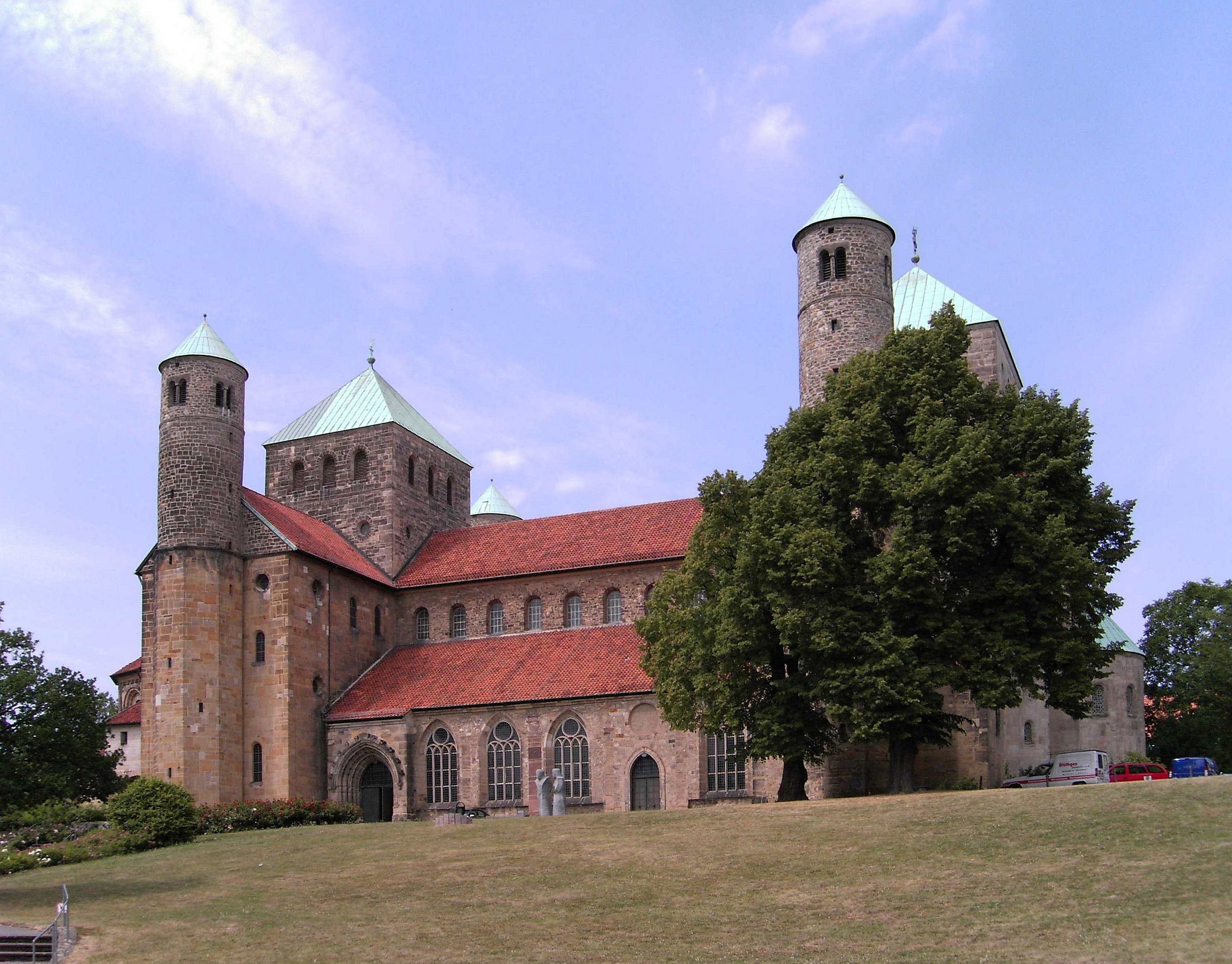 Hildesheim, St Michaels Church